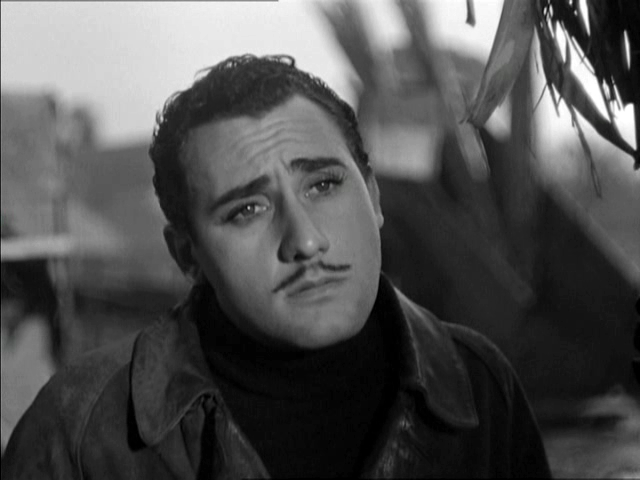 Screenshot of the film Under the Sun of Rome (1948).